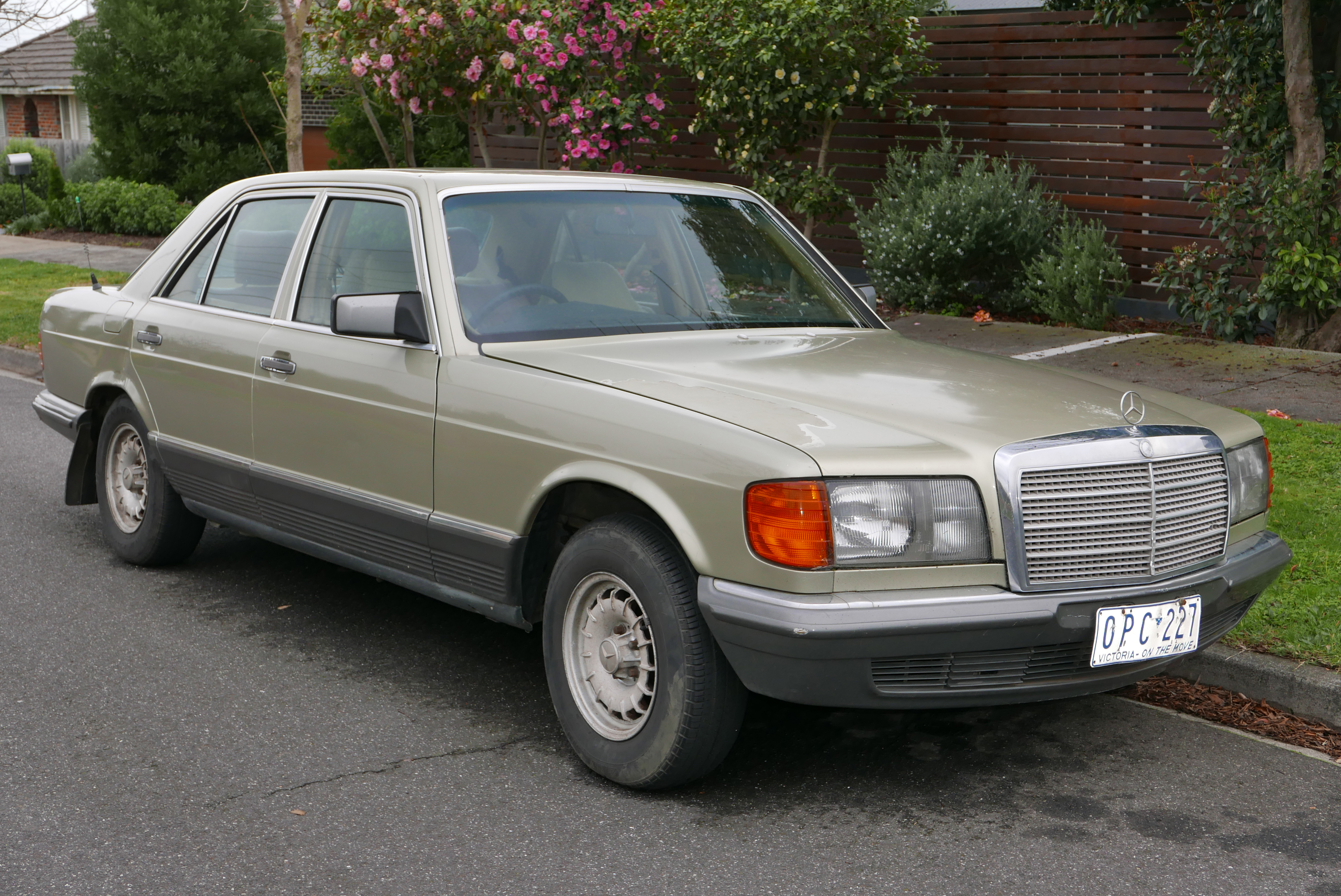 1984 Mercedes-Benz 380 SE (W 126) sedan. Photographed in Box Hill North, Victoria, Australia. Vehicle registration enquiry results Jurisdiction Victoria Registration OPC227 Chassis code Not available Engine code 11696322040853 Compliance date Not available Year of manufacture 1984